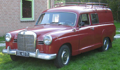 Mercedes-Benz Ponton W121 190Db Station wagon (1961), red, Deventer, Netherlands, Holland